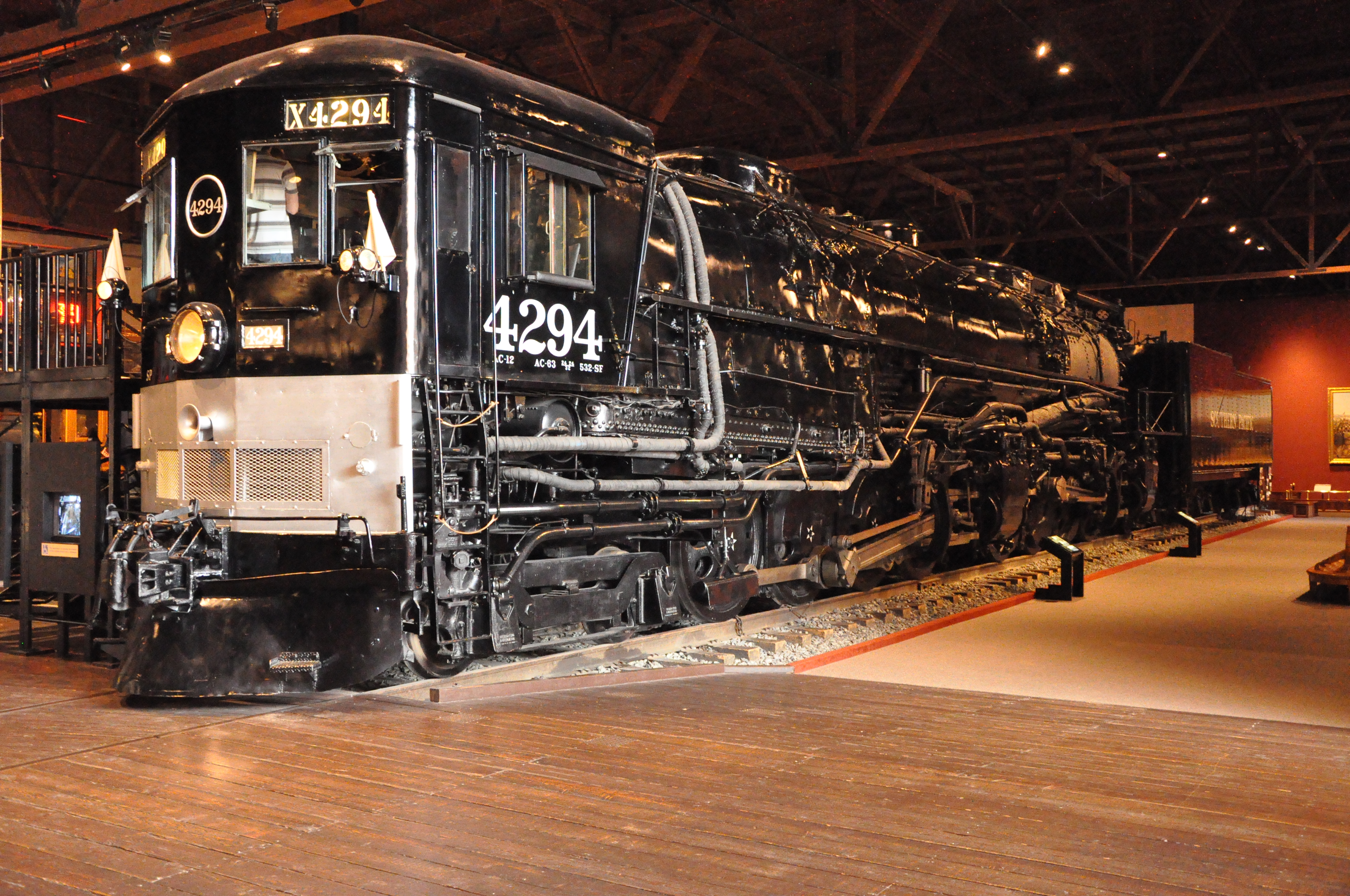 Southern Pacific 4294, a cab-forward steam locomotive, on display at the California State Railroad Museum in Sacramento, California.